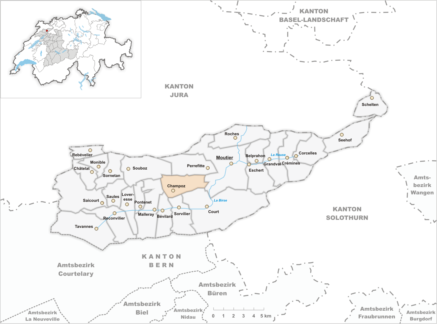 Municipality Champoz